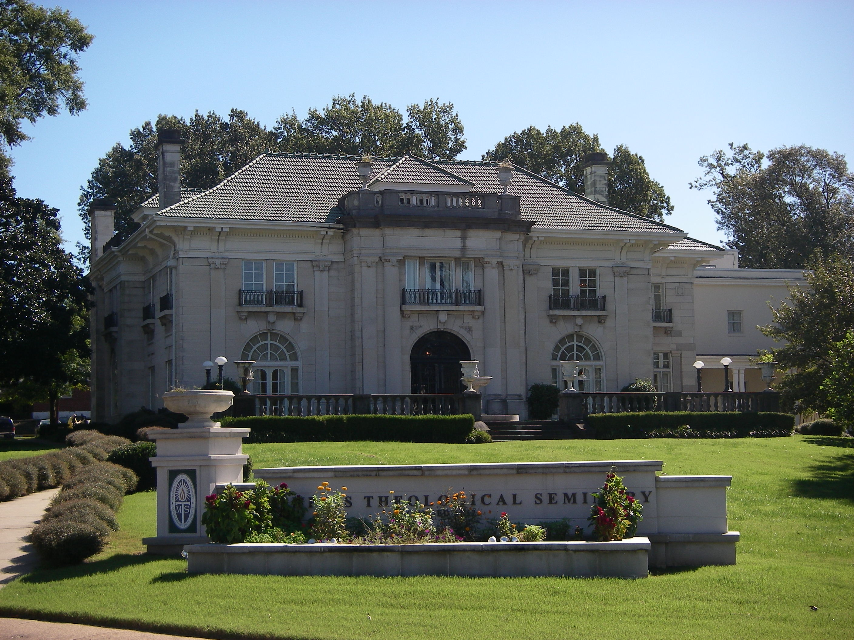 I personally took this photo.